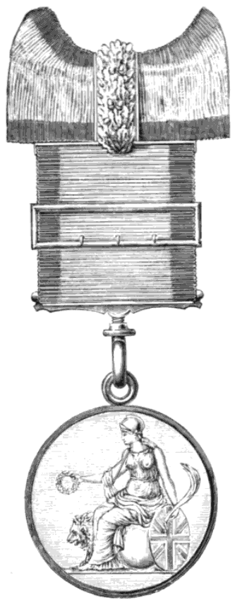 Illustration of the Army Gold Medal, issued to senior British Army officers during the Napoleonic Wars